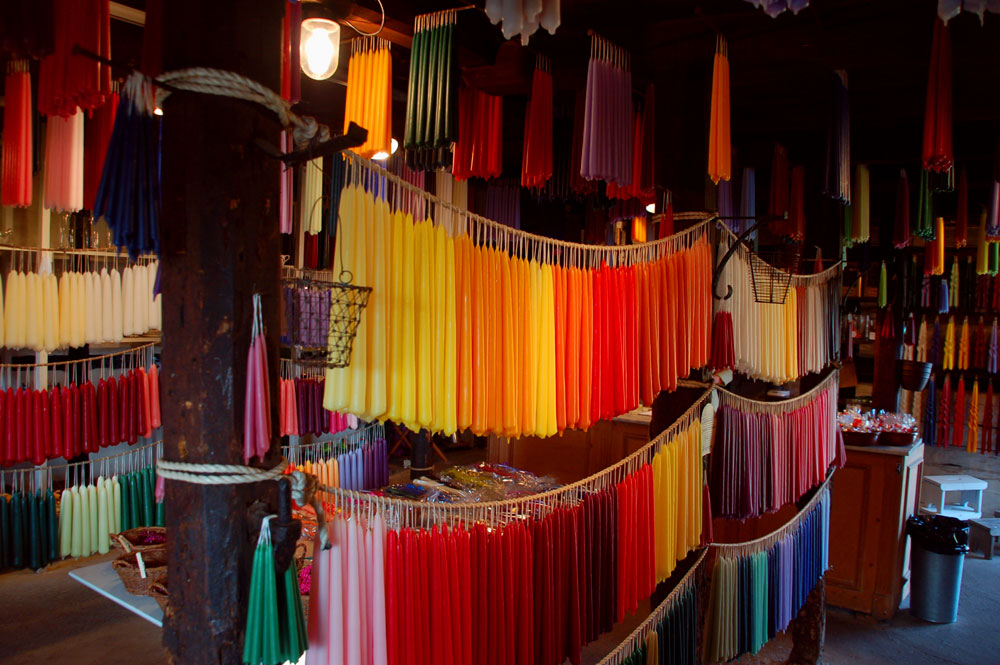 Candle factory and shop, Denmark